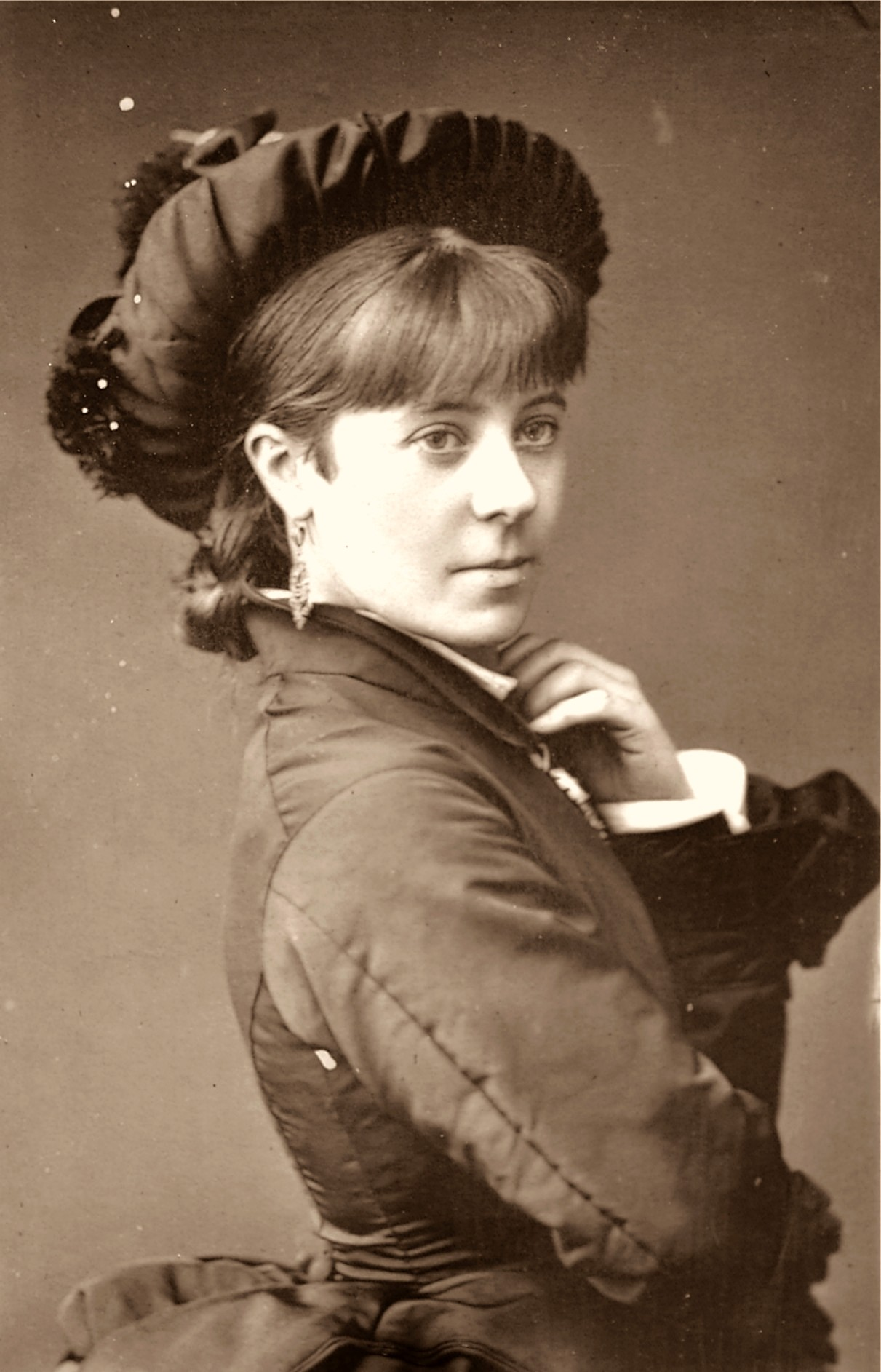 Ellen (Nelly) Farren 1848-1904, English Actress and Singer.